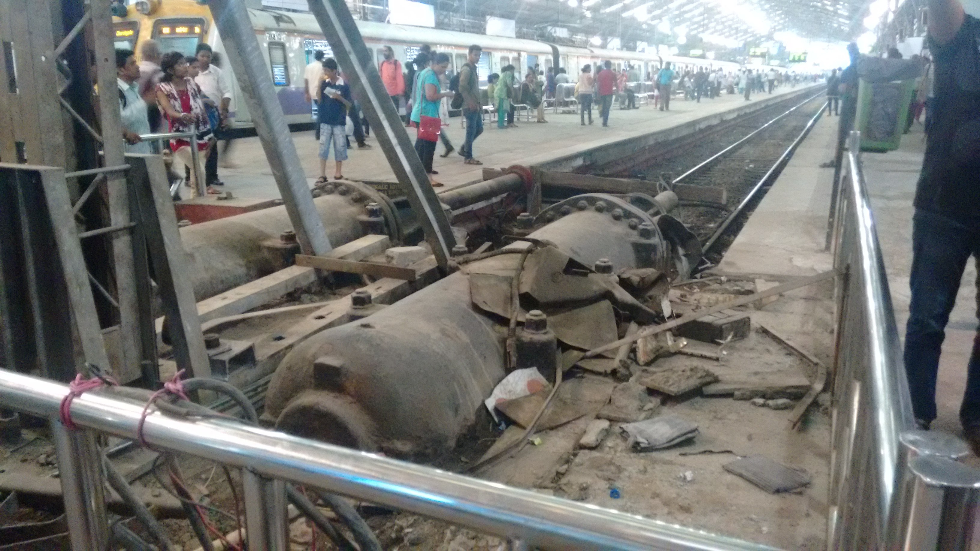 Bumper was damaged in Platform 3 of Churchgate station when a train's brake failed due to system or manual error and as train went above the bumper; the image explains the damage caused.